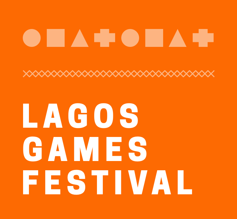 This file is Lagos Games Festival logo